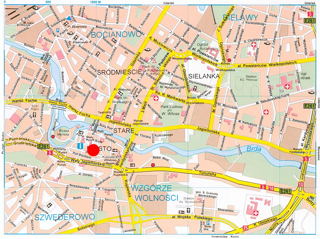 Location a map